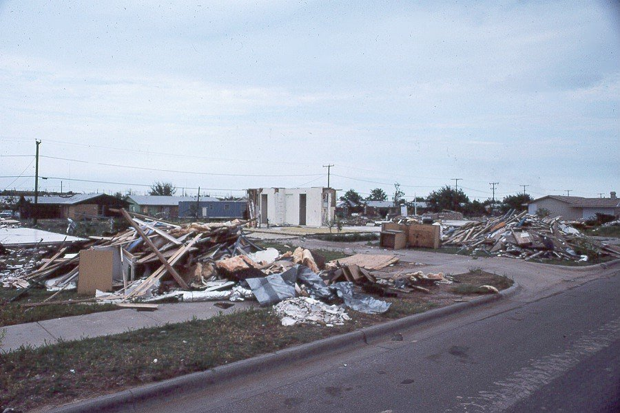 Damage after the Witchita Falls Texas tornado.